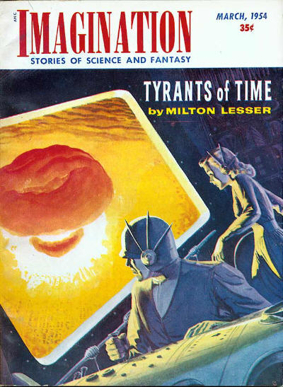 Cover of Imagination, March 1953